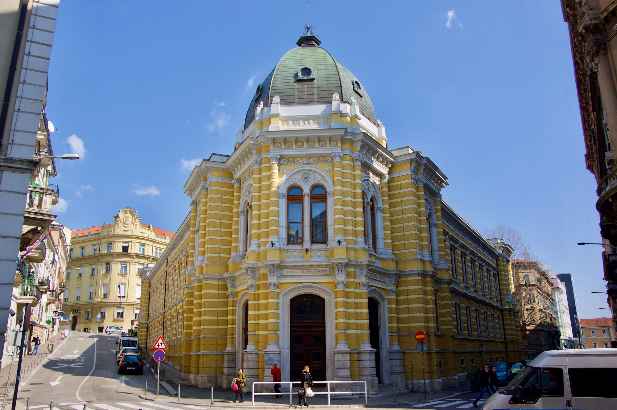 Italian Highschool in Rijeka